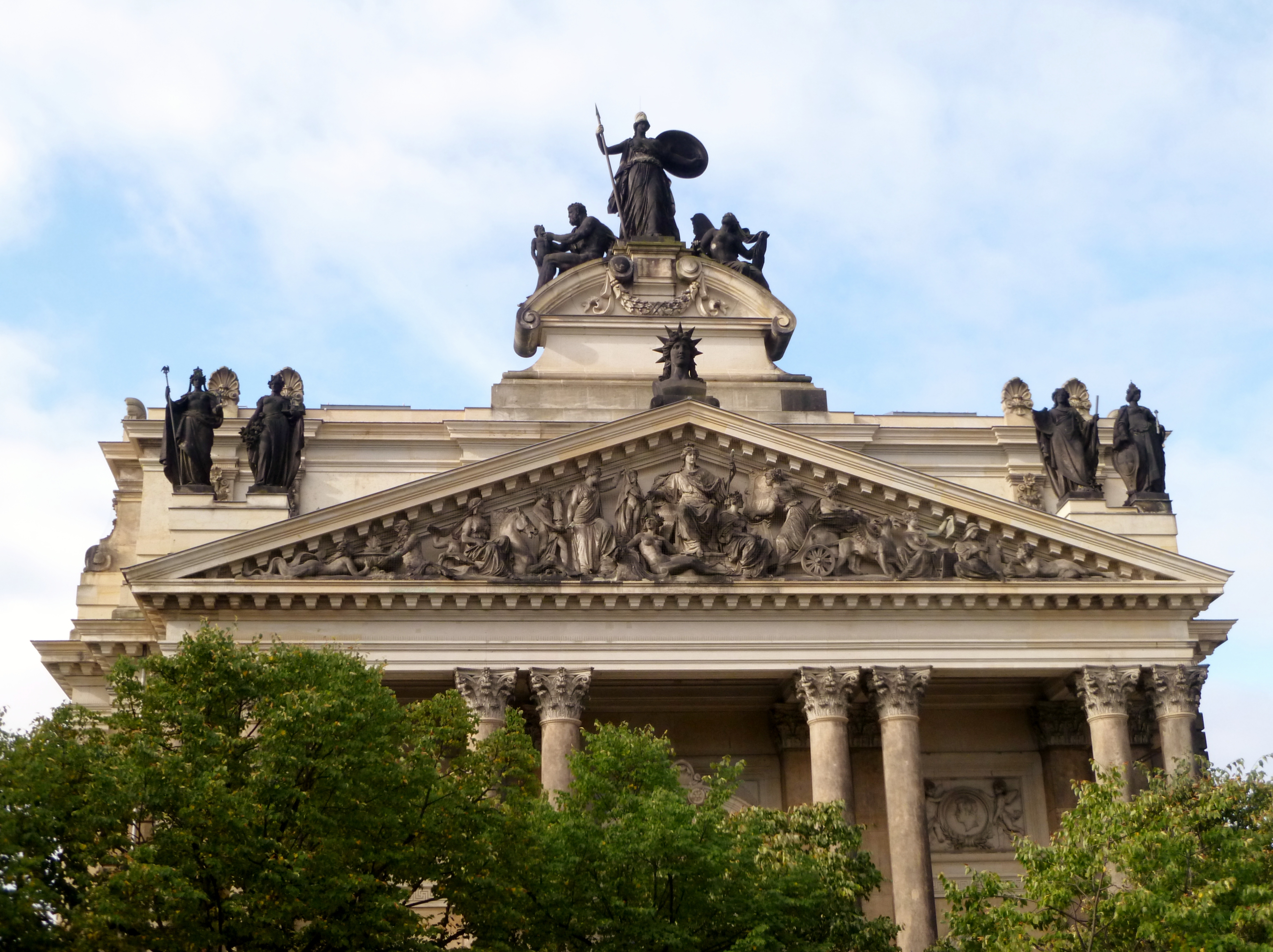 Dresden Academy of Fine Arts, Dresden, Germany